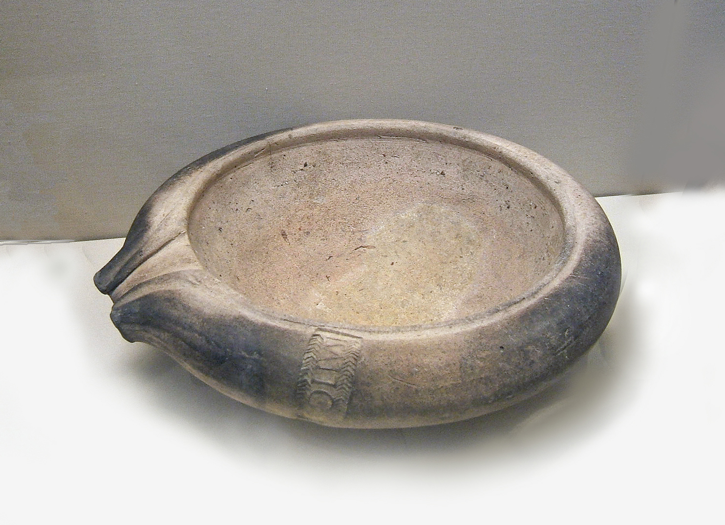 Roman pottery mortarium, used for food preparation, found in London. It was made in Britain, and is stamped on the rim with the name of the manufacturer, Sollus. 1st century AD. Diam. 29.7 cm